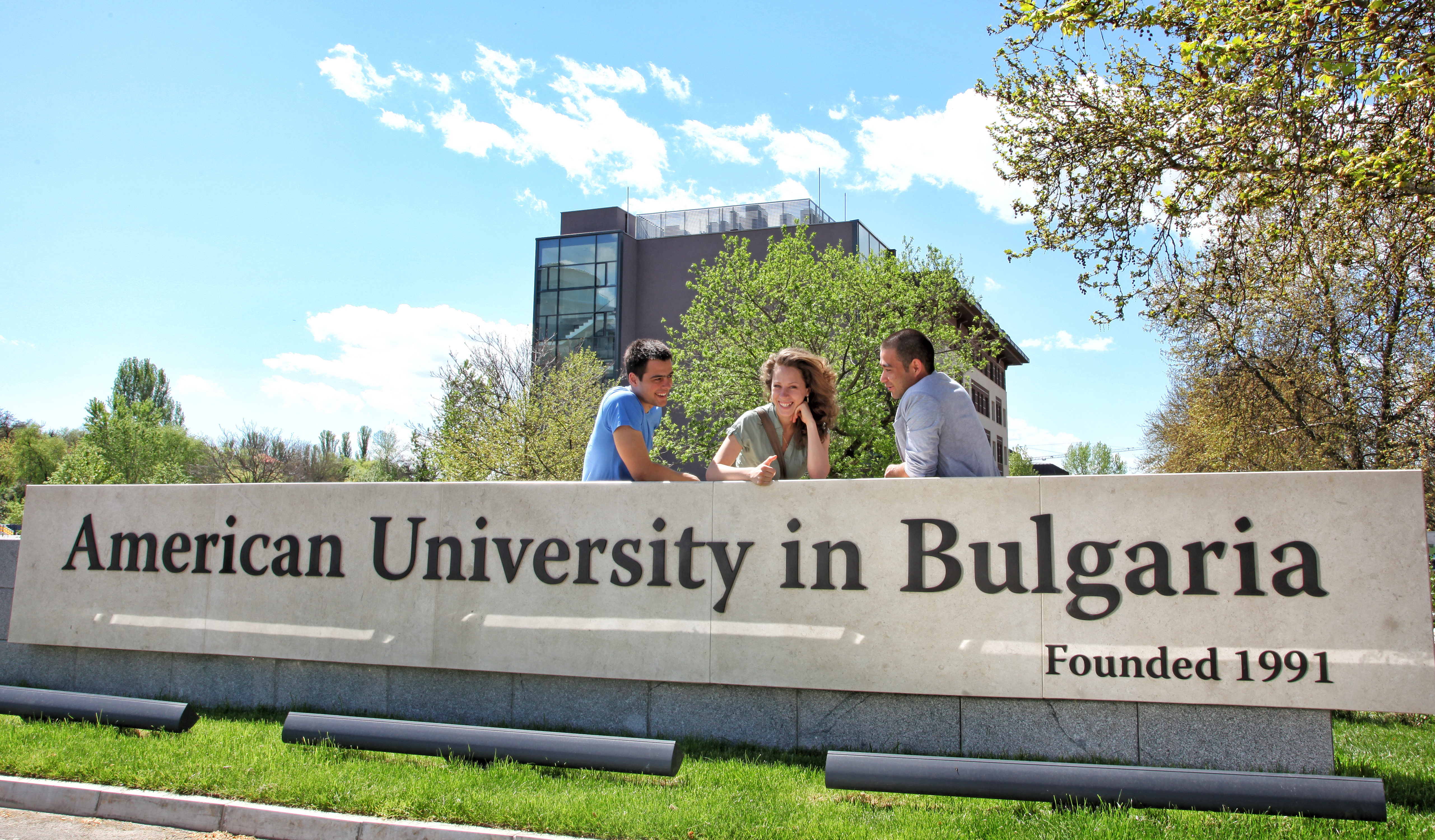 AUBG Campus